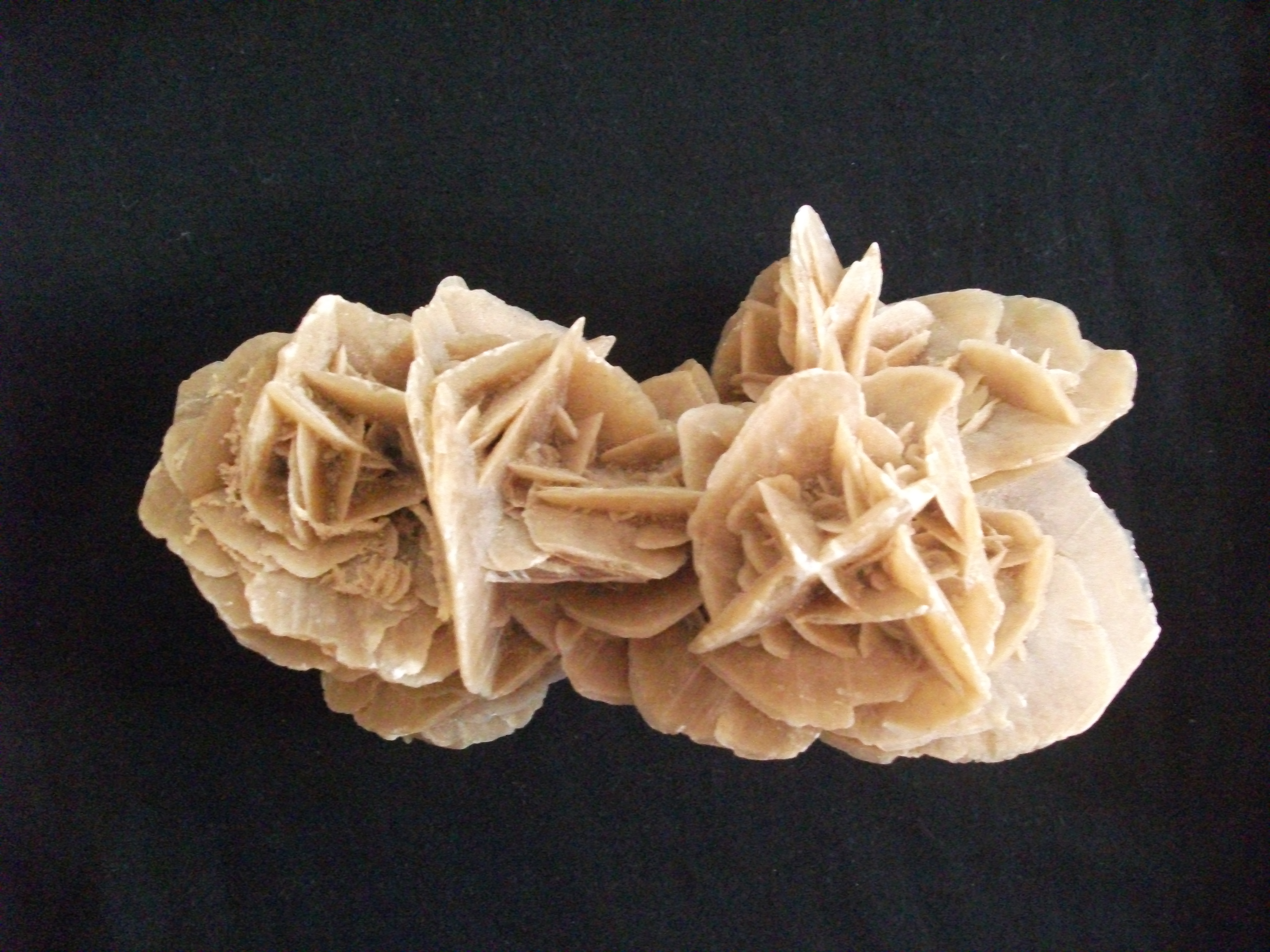 Desert rose from Morocco, 18x10 cm.